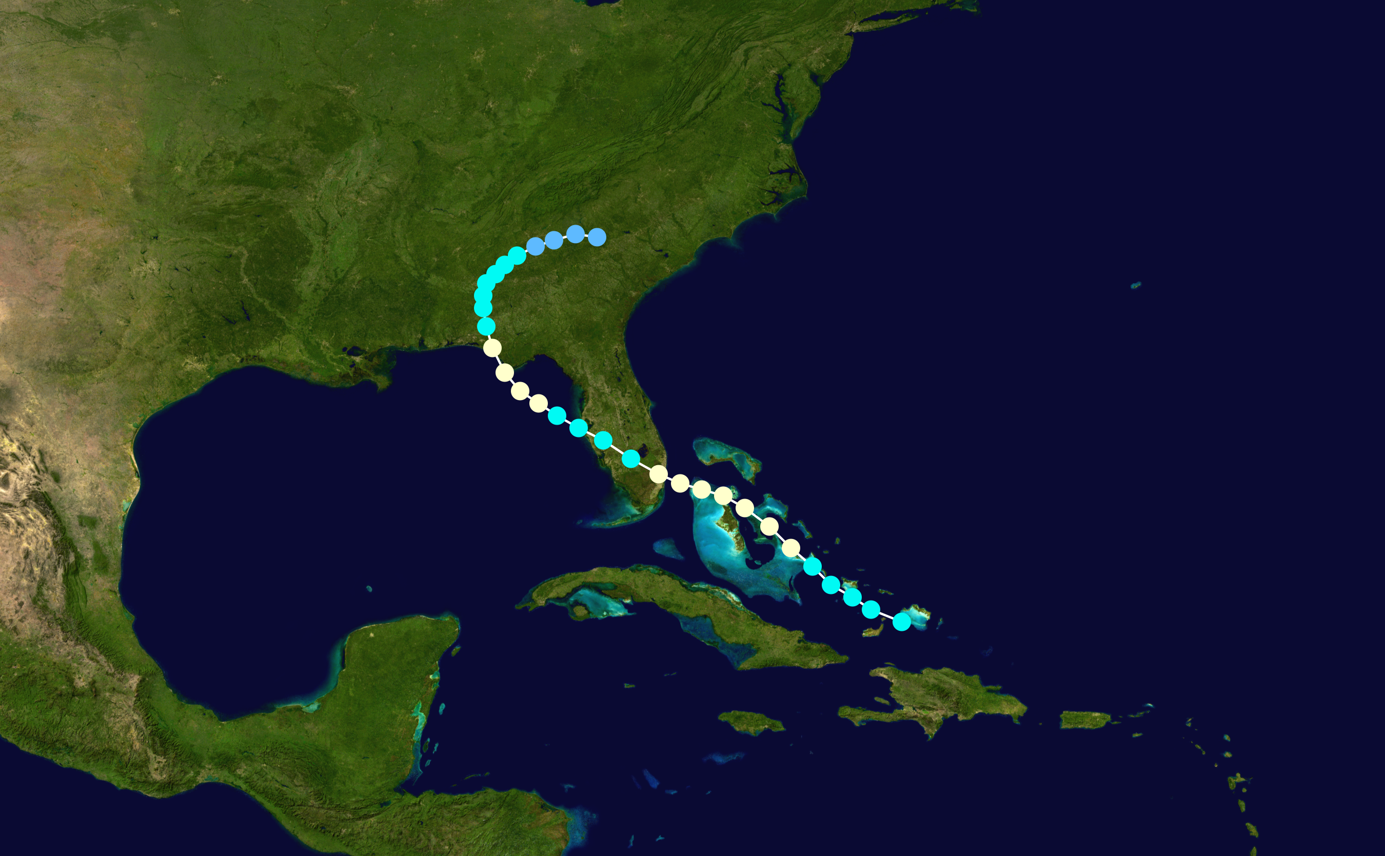 Track map of 1903 Florida hurricane of the 1903 Atlantic hurricane season. The points show the location of the storm at 6-hour intervals. The colour represents the storm's maximum sustained wind speeds as classified in the Saffir–Simpson scale (see below), and the shape of the data points represent the nature of the storm, according to the legend below. Saffir–Simpson scale Tropical depression≤38 mph≤62 km/h Category 3111–129 mph178–208 km/h Tropical storm39–73 mph63–118 km/h Category 4130–156 mph209–251 km/h Category 174–95 mph119–153 km/h Category 5≥157 mph≥252 km/h Category 296–110 mph154–177 km/h Unknown Storm type Tropical cyclone Subtropical cyclone Extratropical cyclone / Remnant low / Tropical disturbance / Monsoon depression